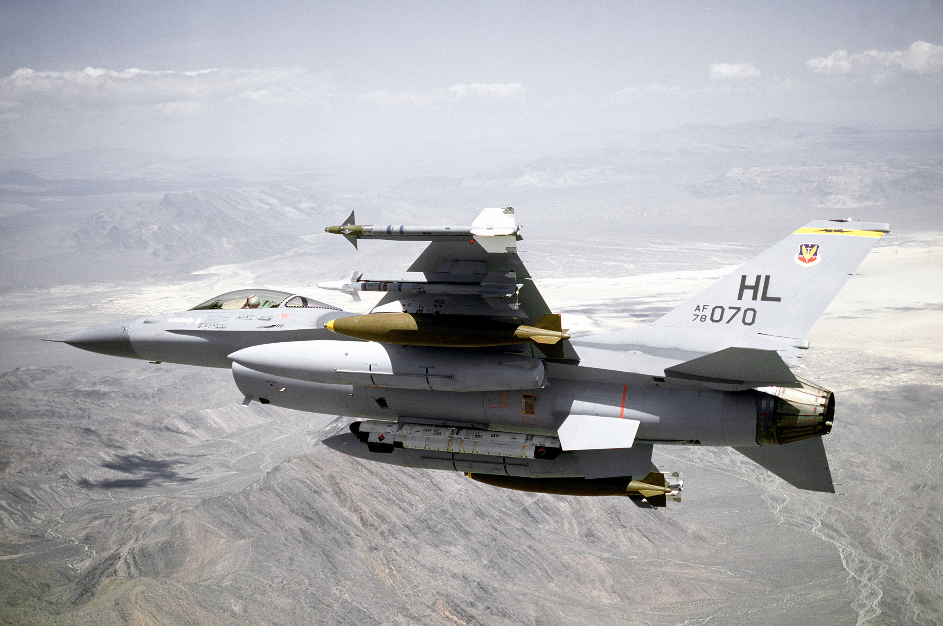 A U.S. Air Force General Dynamics F-16A Block 5 Fighting Falcon (s/n 78-0076) from the 4th Tactical Fighter Squadron, 388th Tactical Fighter, Hill Air Force Base, Utah (USA) in flight near Nellis AFB, Nevada, on 1 May 1980. It carries one AIM-9L Sidewinder, one AIM-9J Sidewinder, one 907 kg Mark 84 bomb and an auxiliary fuel tank are on each wing. An ALQ-119 electronic countermeasures pod is mounted on the centerline. The aircraft was retired to the AMARC as FG0194 on 27 July 1994.